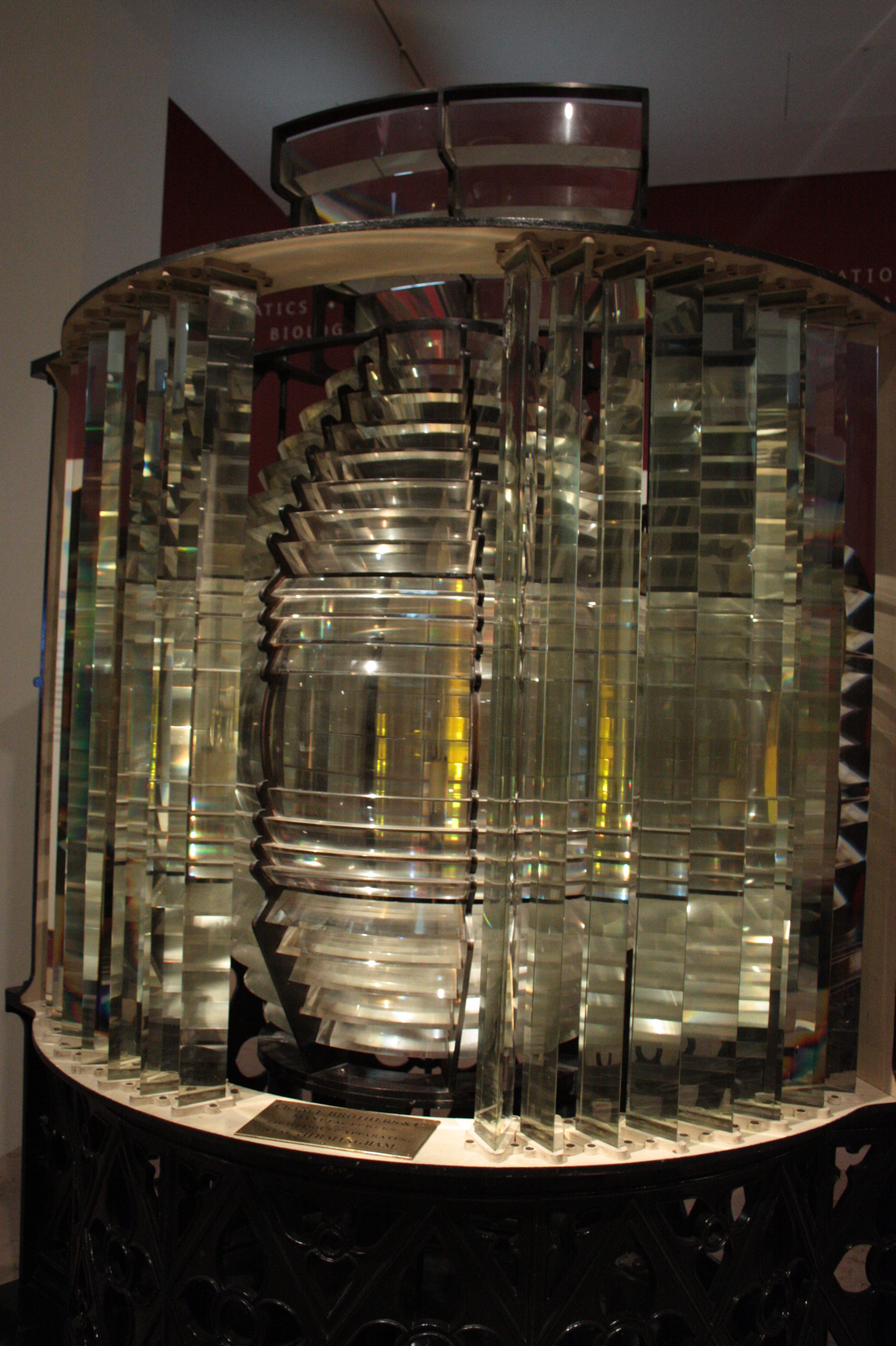 Condensing Light designed by Thomas Stevenson for the Tay Leading Light 1866